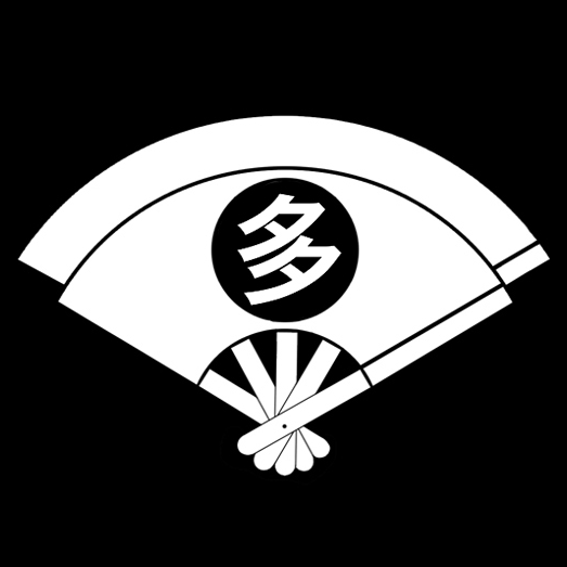 Japanese family crest "Kasane Ōgi ni Ta-no-ji mon", two overlapping folding fans carrying kanji "多" (many, much)